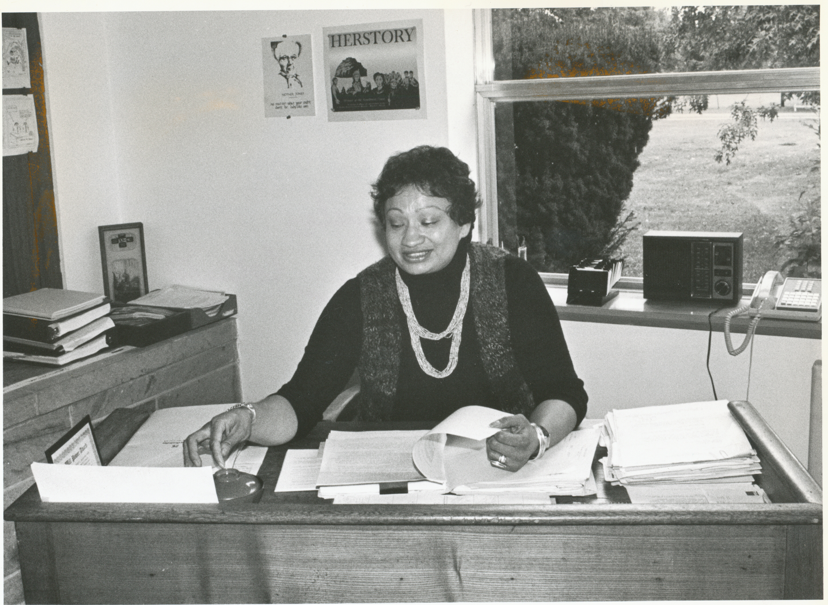 Irma Gonzalez in her office at Colegio Cesar Chavez in Mount Angel, Oregon.